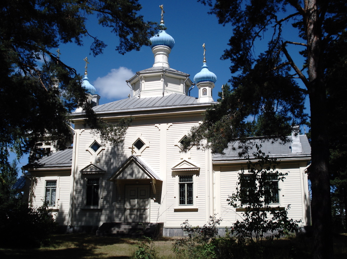 Orthodox church in Hanko, Finland. It was built in 1895, and is dedicated to Vladimir, the Grand prince of Kiev and St. Mary Magdalene.